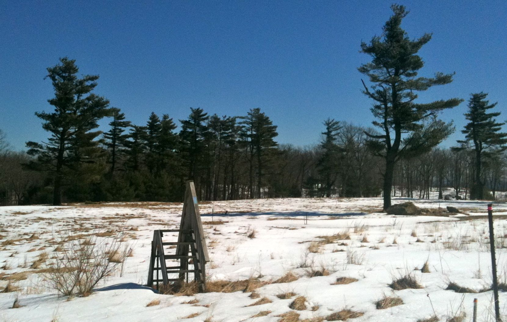 "Stile" in field on Johnnycake Mountain - Tunxis White Dot Trail Burlington Section